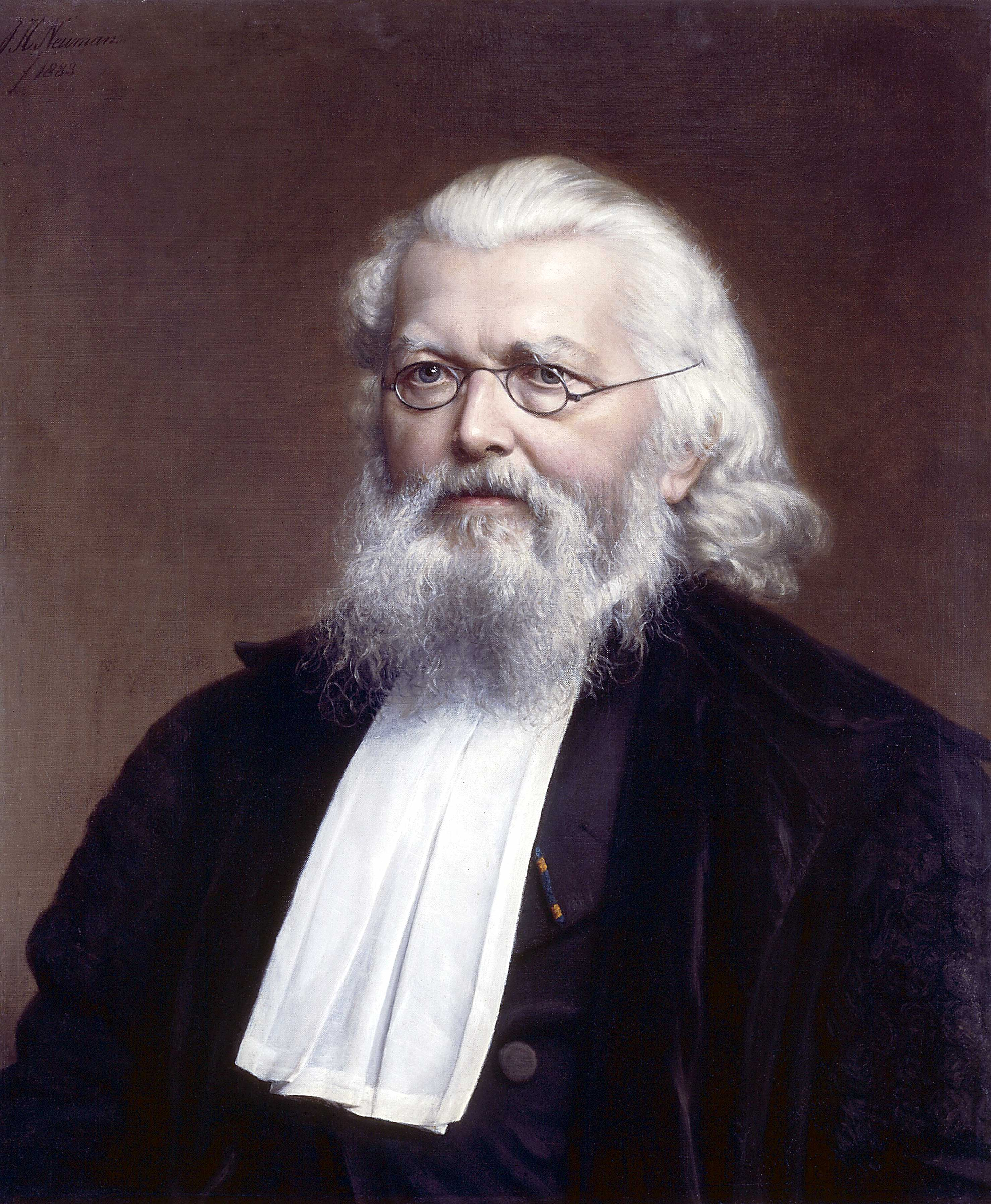 Pieter Harting (1812-1885), Dutch microscopist, biologist, paleontologist and hydrologist